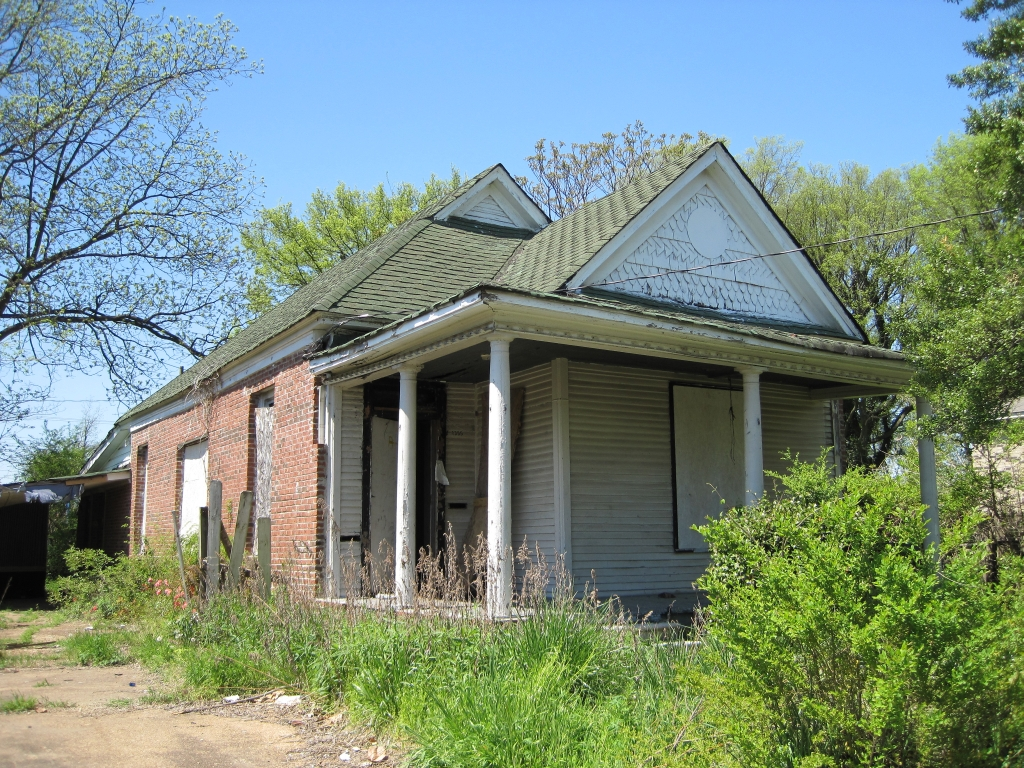 Memphis Minnie House at 1355 Adelaide Street in Memphis, Tennessee.